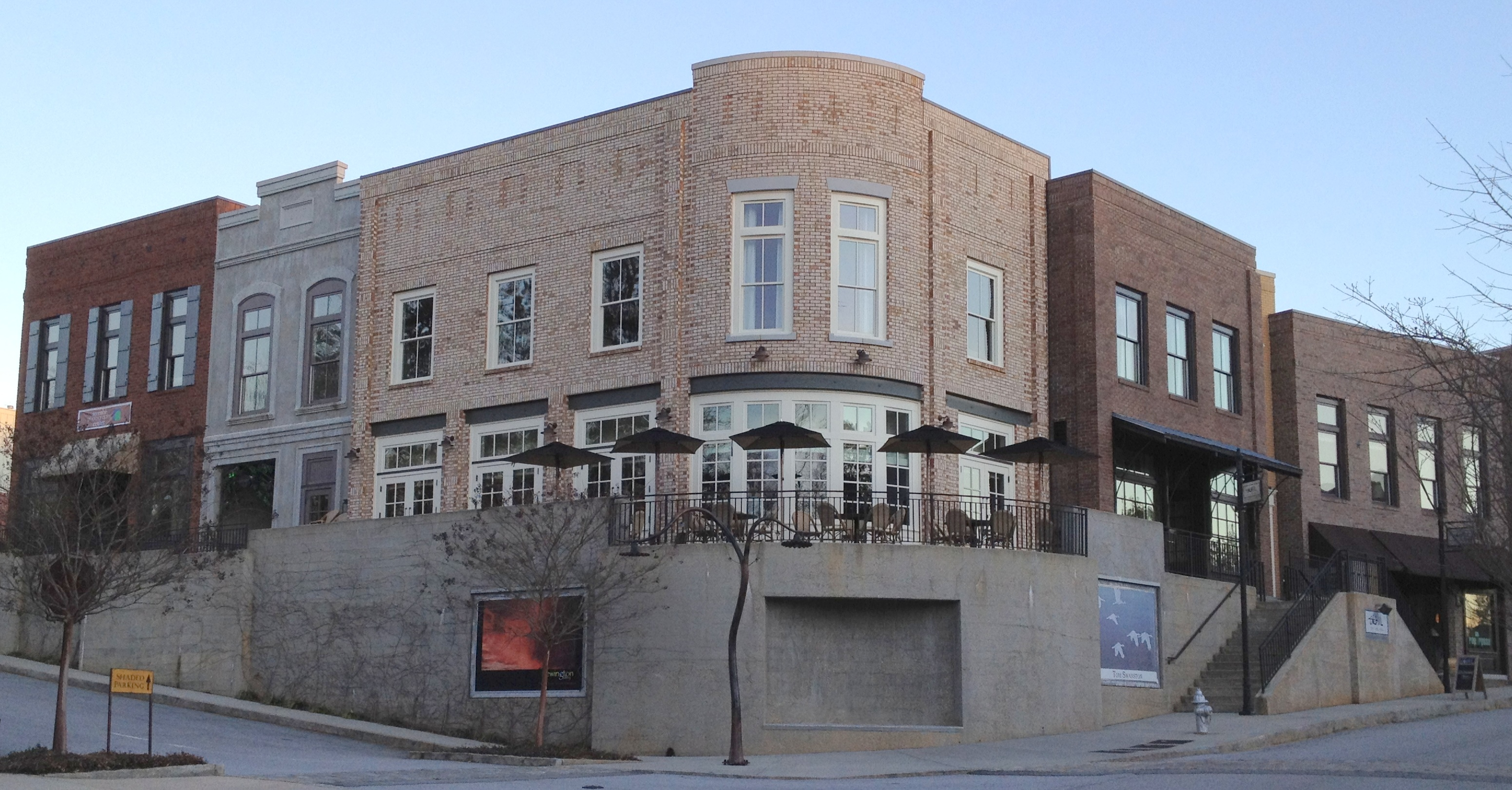 Serenbe businesses